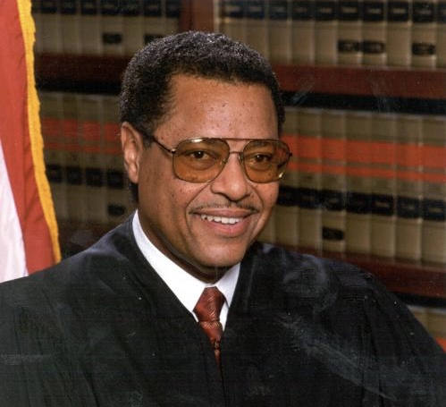 Photo of Judge Stephan P. Mickle